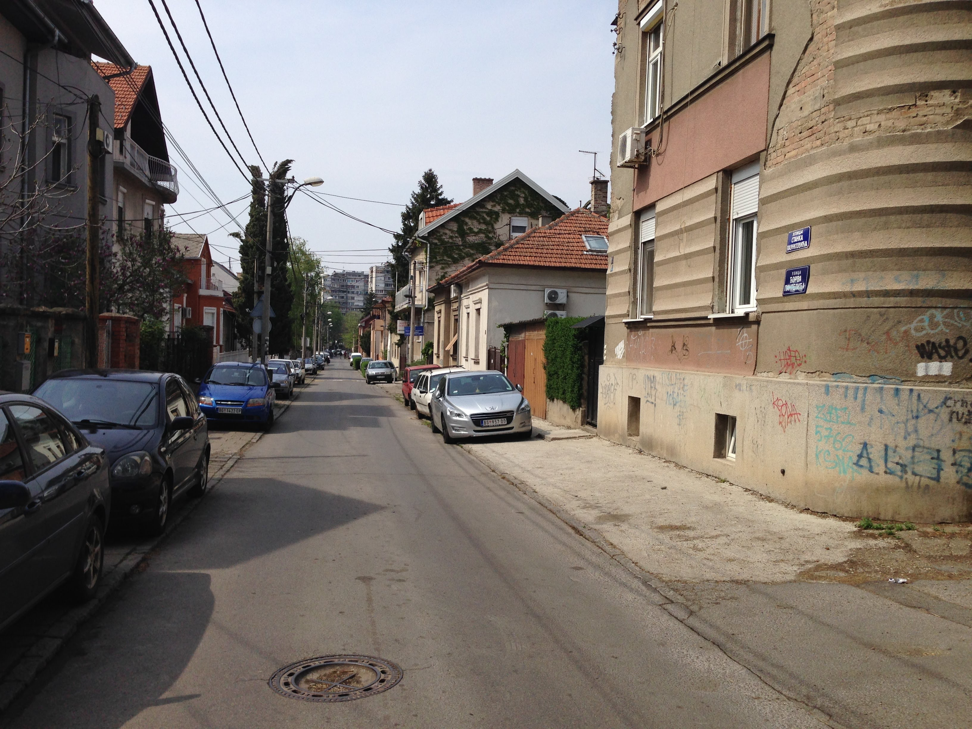 Đorđe Pantelić Street, Zemun, Belgrad